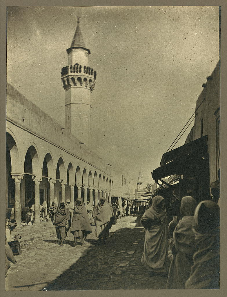 19th Century street scene in Tripoli (Souq El Mushir). The mosque to the left is the Ahmed Pasha Karamanli Mosque.